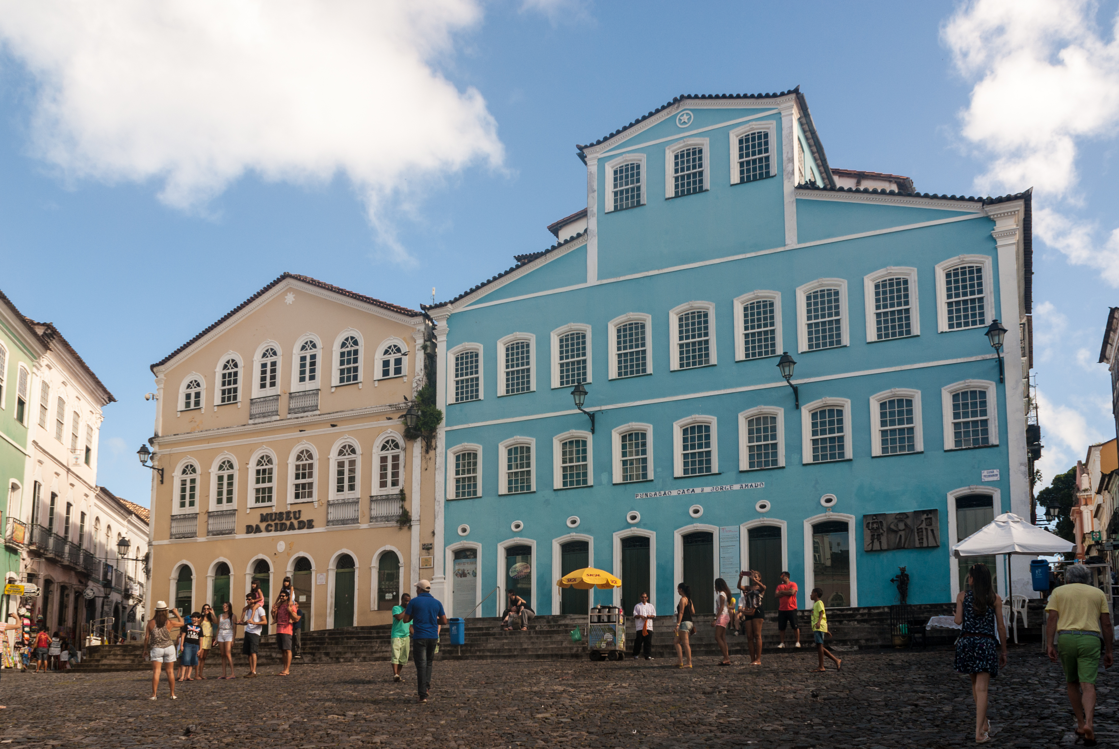 Largo do Pelourinho, Salvador, Brazil